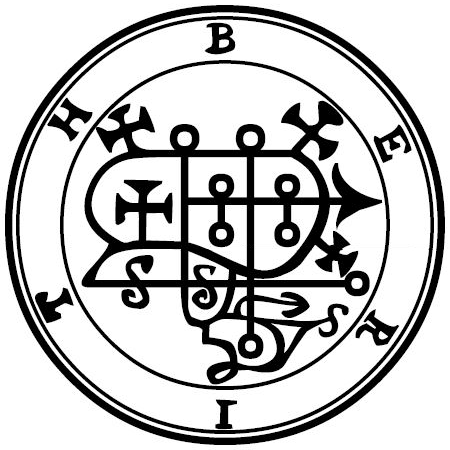 Berith seal, THE BOOK OF THE GOETIA OF SOLOMON THE KING (1904)